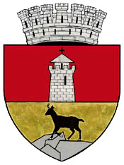 Coat of arms of Piatra Neamț, Neamț County, Romania.